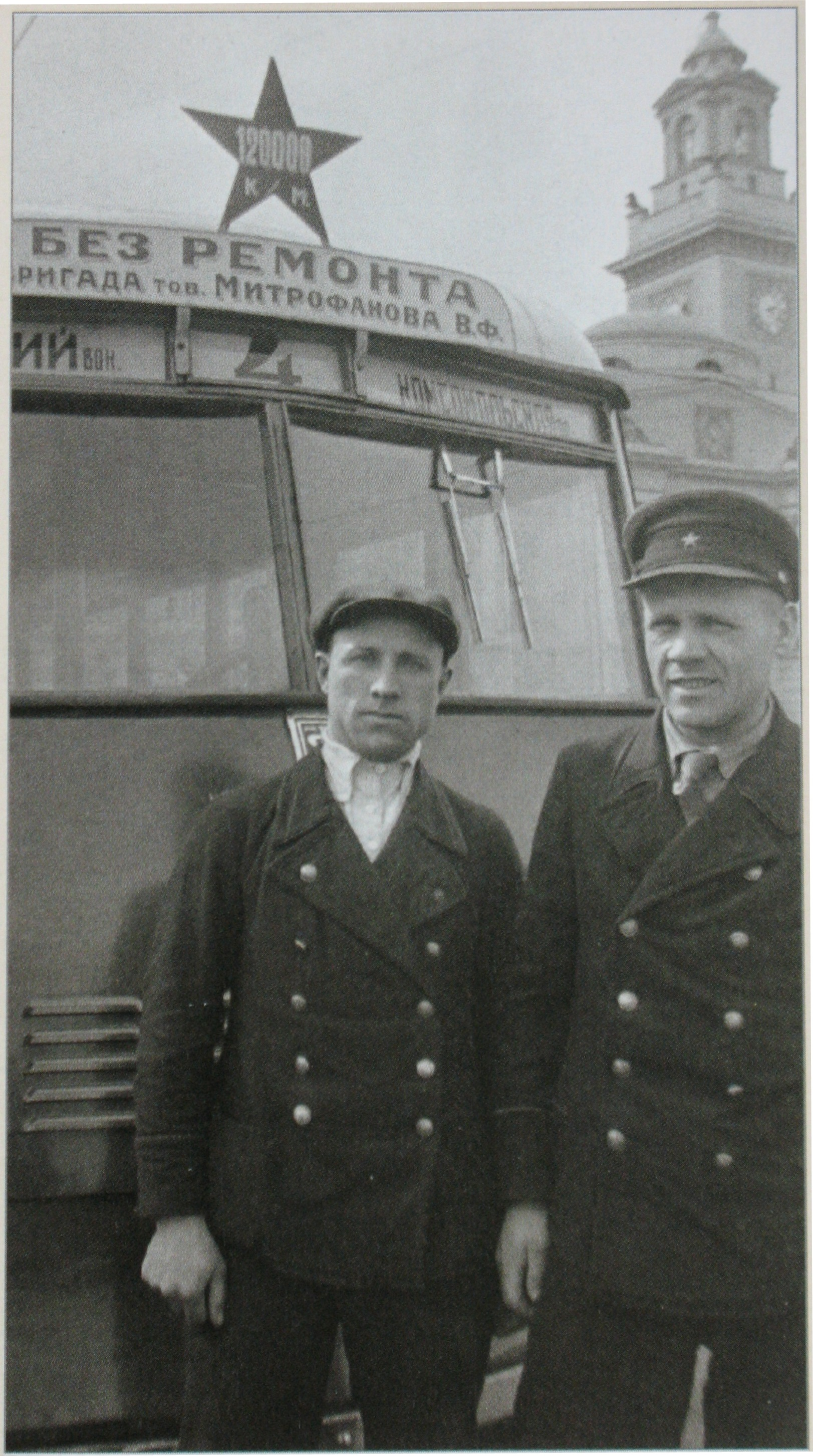 Komsomol Square (Moscow). Soviet Stahanov trolleybus YaTB-1 brigade.